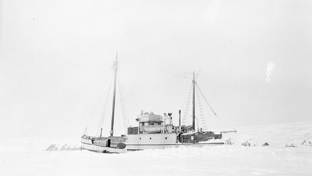 Royal Canadian Mounted Police (R.C.M.P.) marine patrol vessel ST. ROCH (launched 1928 in North Vancouver) in winter quarters at Herschel Island in the Beaufort Sea.